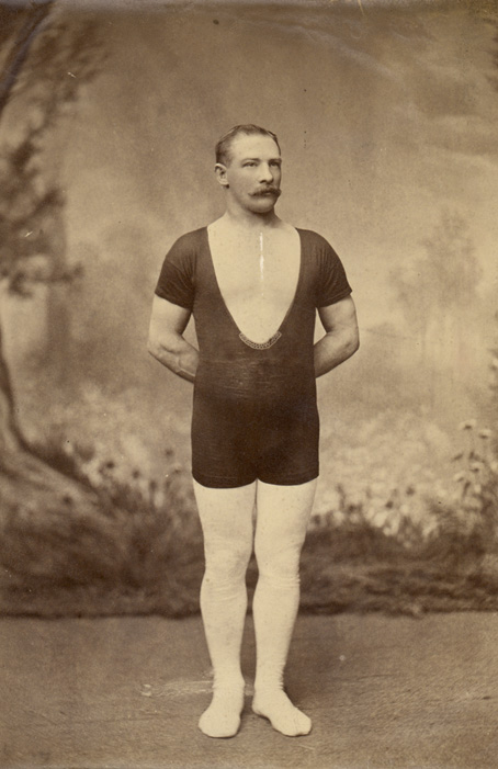 A photo of British wrestler Edwin Bibby which appears on topic;f=10;t=002862 .